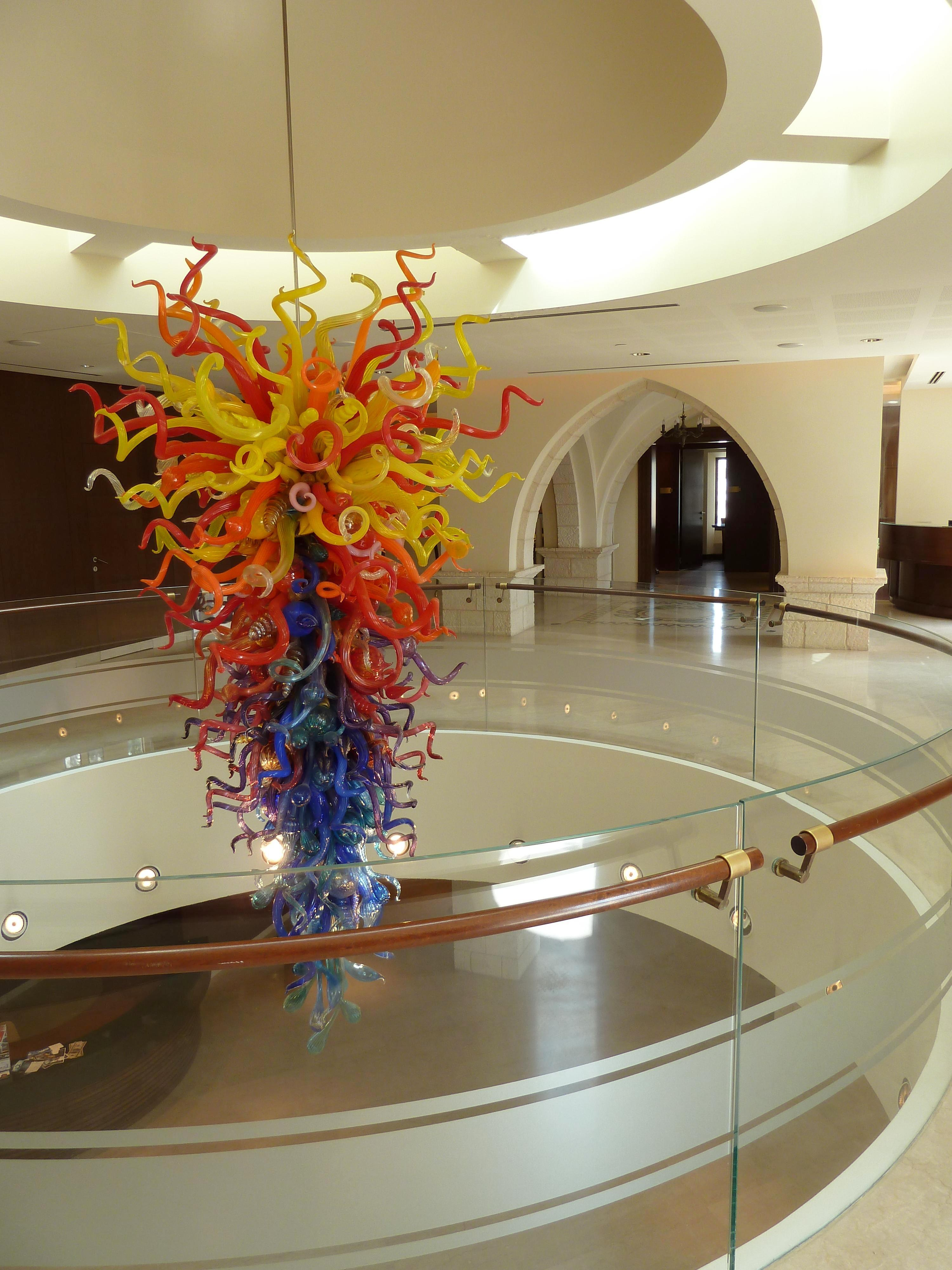 Old Jerusalem, Aish HaTorah Yeshiva Atrium. Glass chandelier “Fire and Water”, artwork by Dale Chihuly, an American glass sculptor and painter. Please note that the aforementioned Atrium is publicly accessible, hence it's a ""public place"" and therefore the freedom of panorama applies.